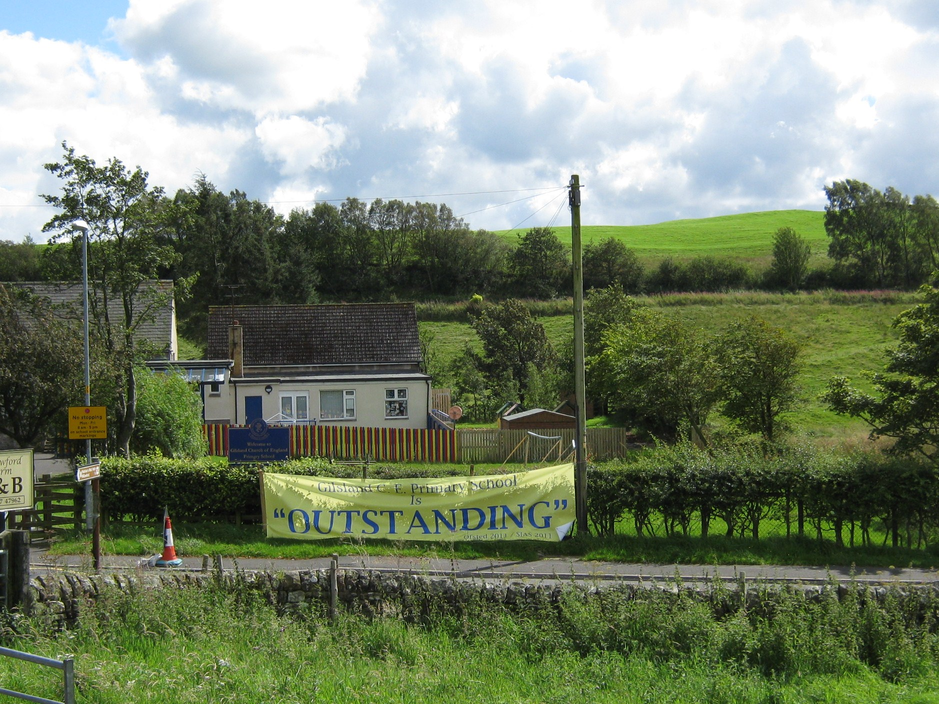 Poster outside village school in Cumbria, referring to Ofsted inspection report